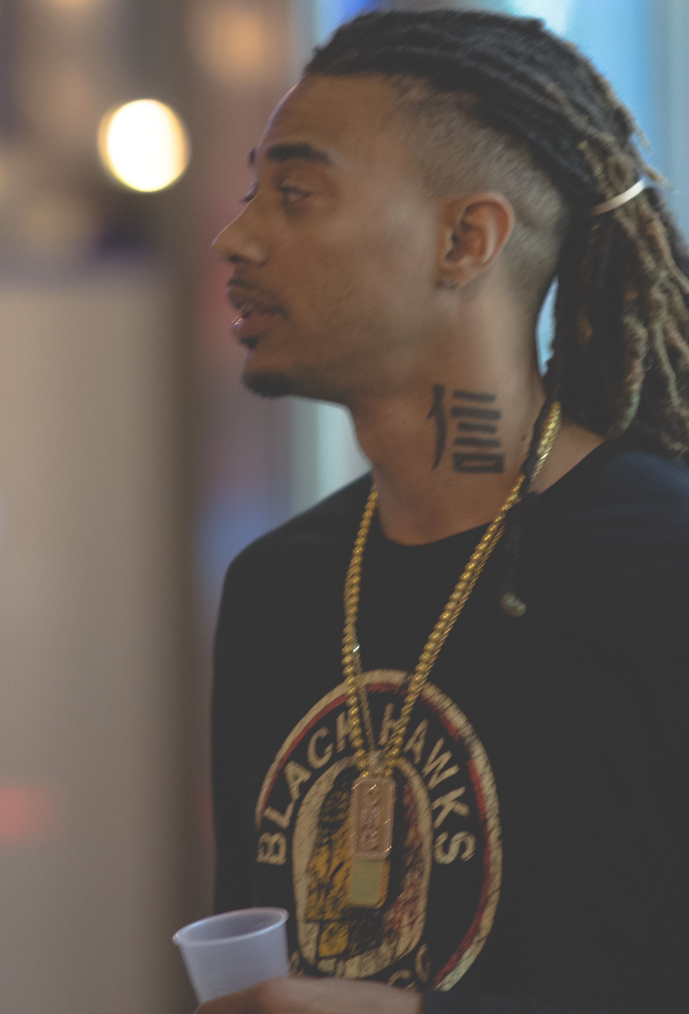 Snootie WIld in June 2015